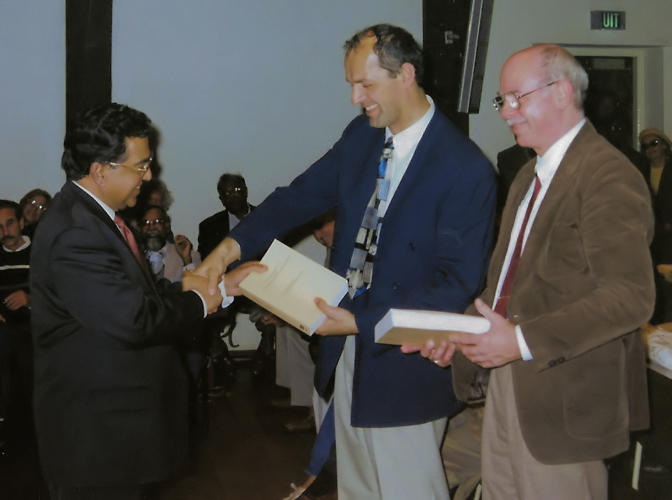 The Suriname-catalogue of the University Library of Amsterdam, handed over by authors Michiel van Kempen (centre) and Kees van Doorne (right) to Surinamese ambassador Evert Azimullah, June 16th 1995, Amsterdam.